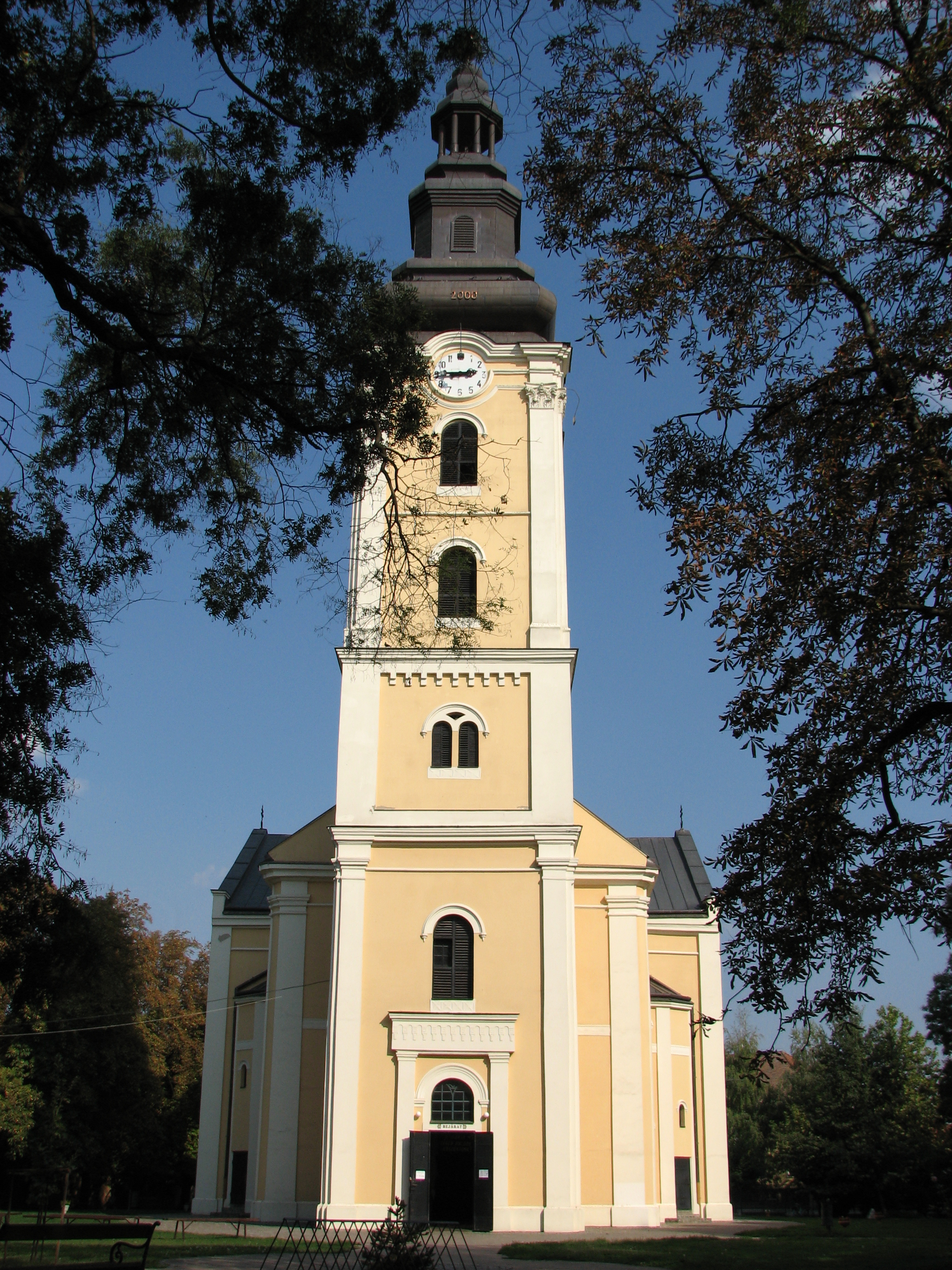 The Greek Catholic Cathedral of Hajdúdorog, Hungary from the front.